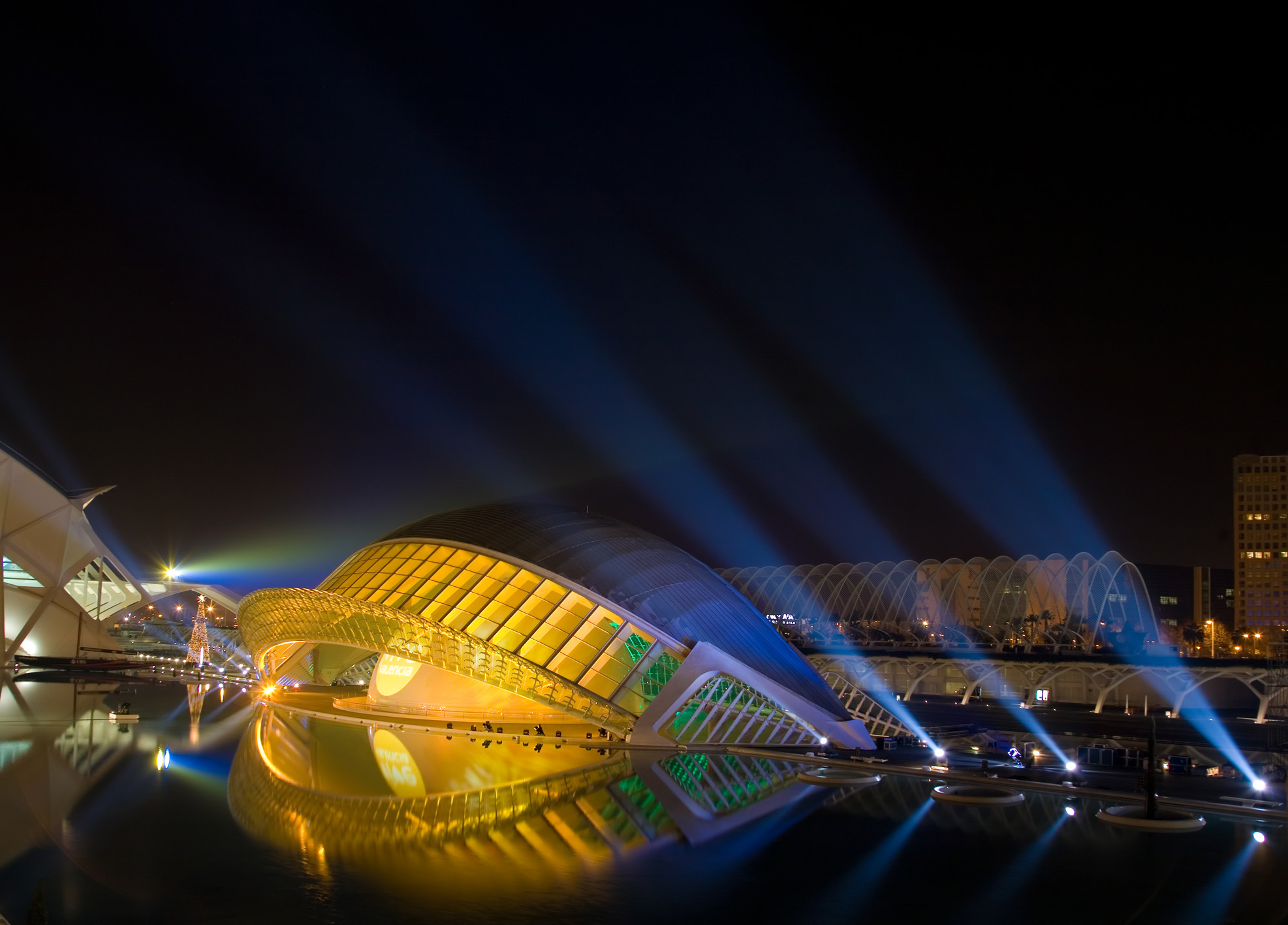 New Year's Eve at The Hemispheric, Ciutat de les Arts i les Ciències in Valencia, Spain.